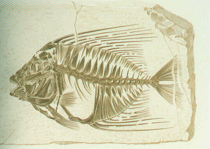 Acanthonemus filamentosus Subject: Fish--Fossils, Ophidiidae Tag: Fish